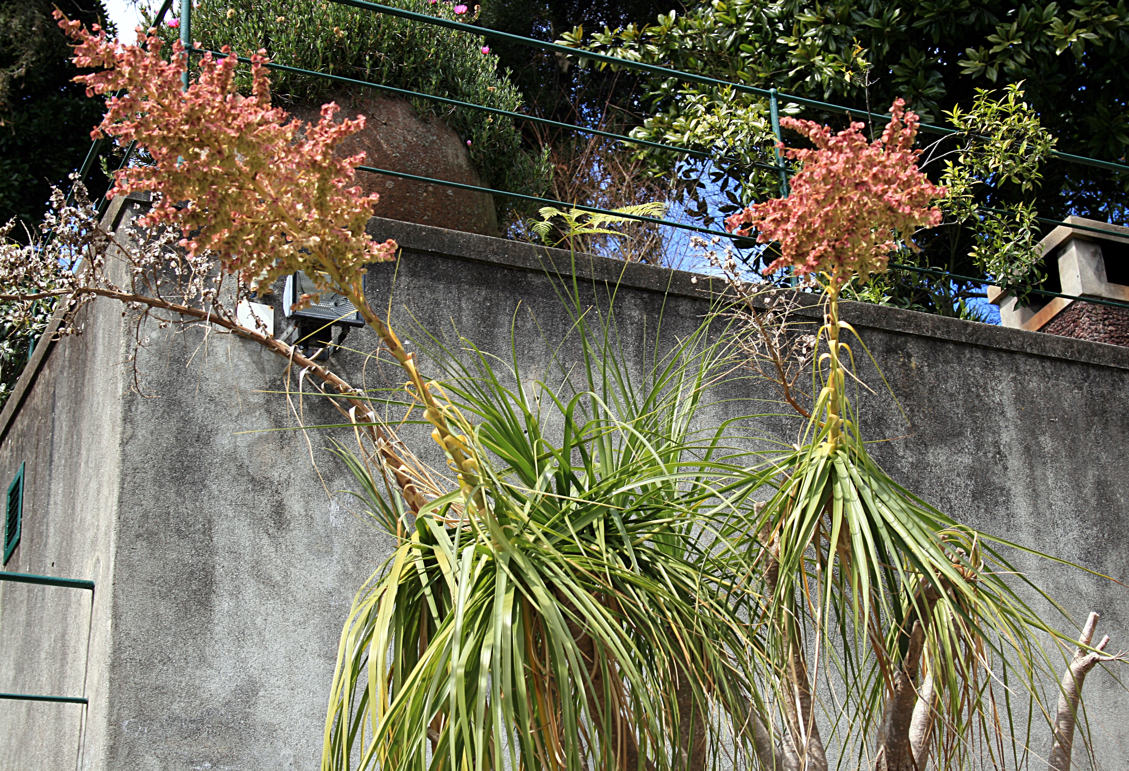 Funchal,_Monte_-_Beaucarnea_recurvata_(Blühender Elefantenfuß), Synonym: Nolina recurvata (Lem.) Hemsl.